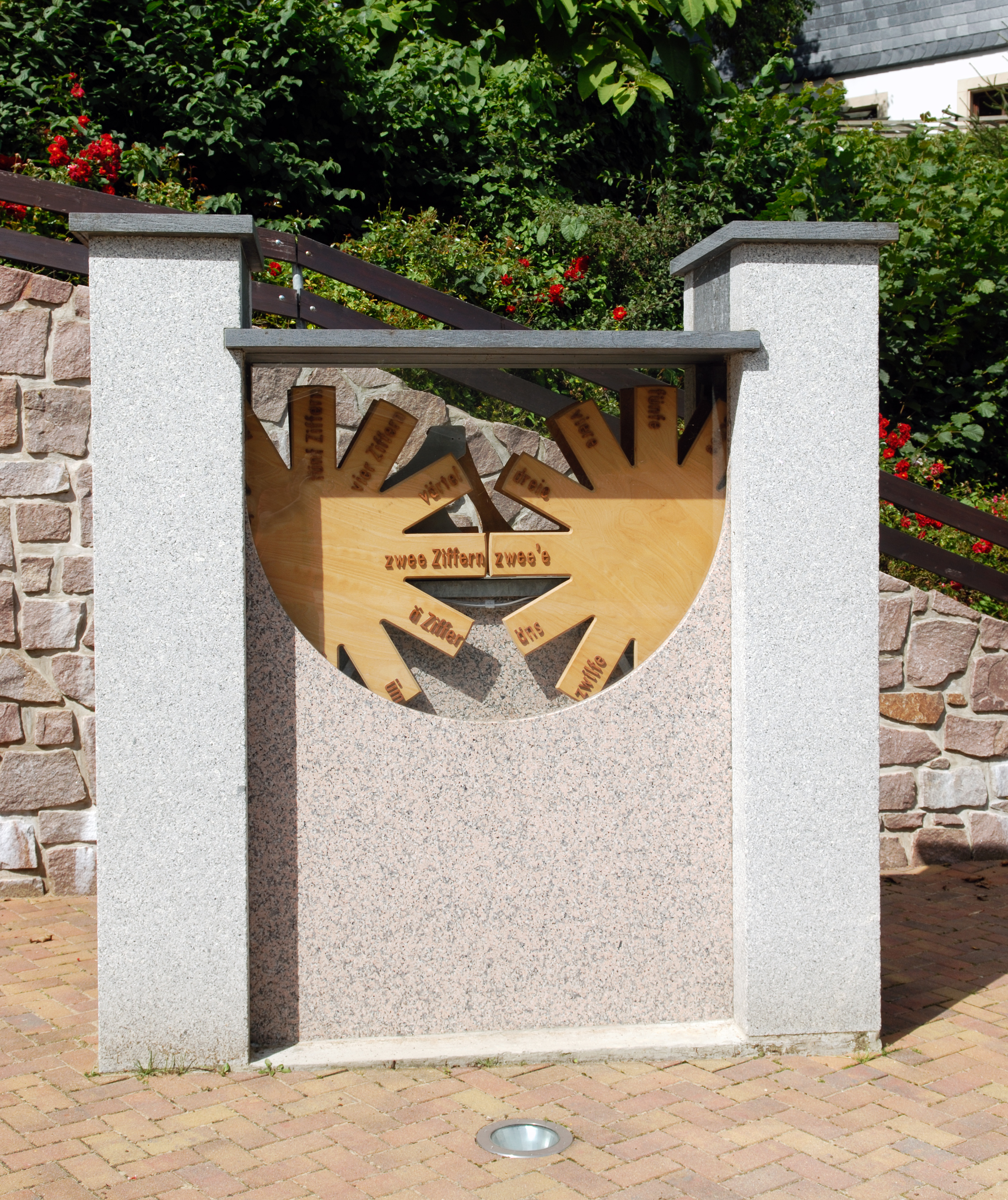 This image shows the dialect clock in Hormersdorf in the Ore Mountains. The clock shows "zwee Ziffern zwee'e" in the Hormersdorf Erzgebirgisch dialect meaning 01:10 (literally "two Ziffers of the second hour", a Ziffer being five minutes, the second hour being 01:00 to 02:00 or 13:00 to 14:00 in daytime). The left-hand wheel has twelve cogs, each showing a five minute interval (a Ziffer), from bottom to top: üm = at or exactly; ä Ziffer = one Ziffer or five minutes; zwee Ziffern = two Ziffer or ten minutes; värtel = quarter of an hour or fifteen minutes; vier Ziffern = four Ziffer or twenty minutes; fünf Ziffern = five Ziffer or twenty-five minutes; (remaining cogs are out of view) The right-hand wheel also has twelve cogs, each showing a single hour, from bottom to top: zwilfe = twelve (or "of the twelfth hour"); äns = one (or "of the first hour"); zwee'e = two (or "of the second hour"); dreie = three; viere = four; fünfe = five; (remaining cogs are out of view)